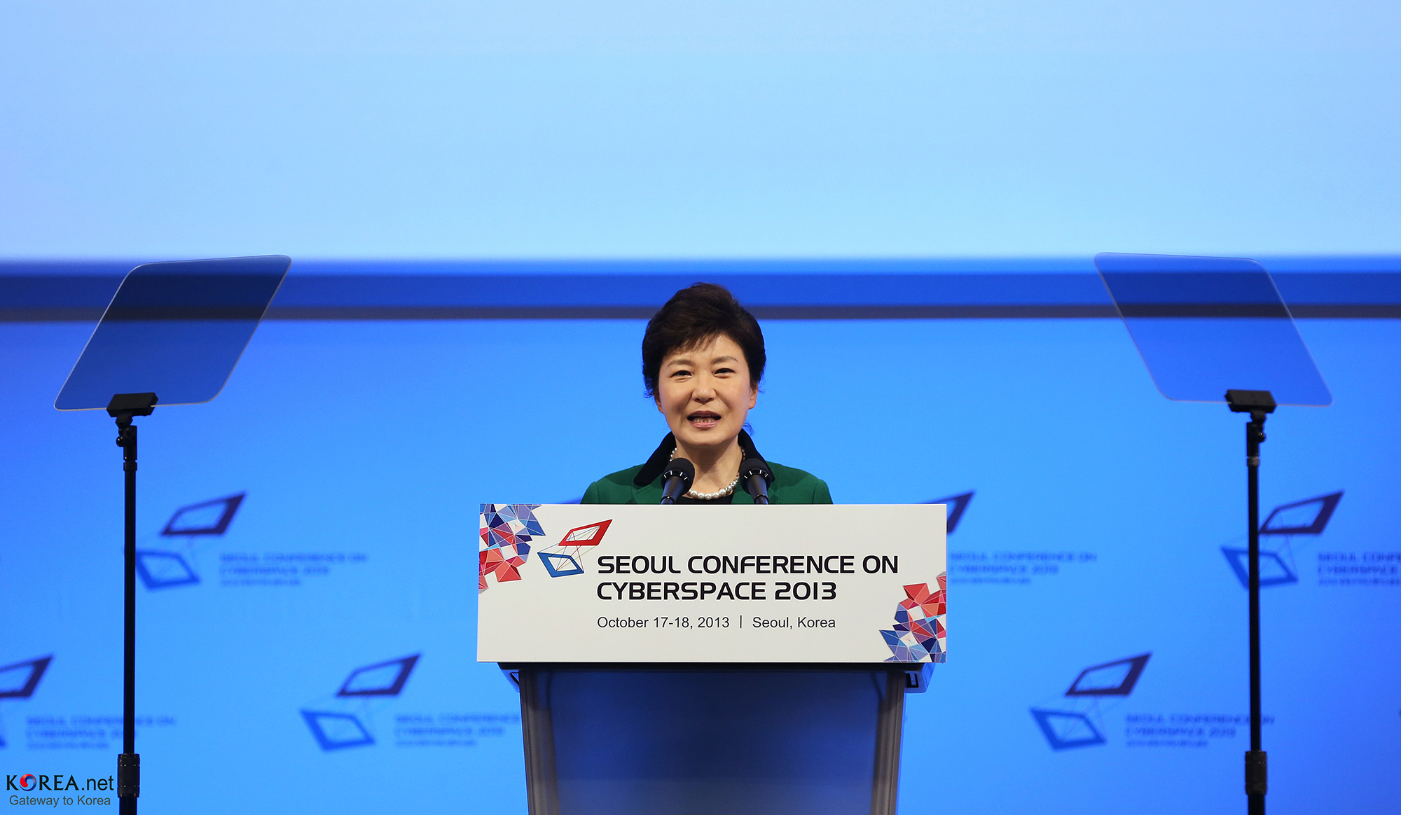 Seoul Conference on Cyberspace 2013 President Park Geun-hye delivers a welcoming address at the opening of the ‘Seoul Conference on Cyberspace 2013’ in Seoul on October 17. COEX, Seoul Ministry of Culture, Sports and Tourism Korean Culture and Information Service ( JEON HAN 2013년 세계사이버스페이스 총회 박근혜 대통령이 17일 ‘2013 세계사이버스페이스 총회’ 개막식에 참석해 축사를 하고 있다. 2013.10.17. 코엑스, 서울 문화체육관광부 해외문화홍보원 코리아넷 전한